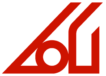 Logo for US soccer franchise Atlanta Apollos.